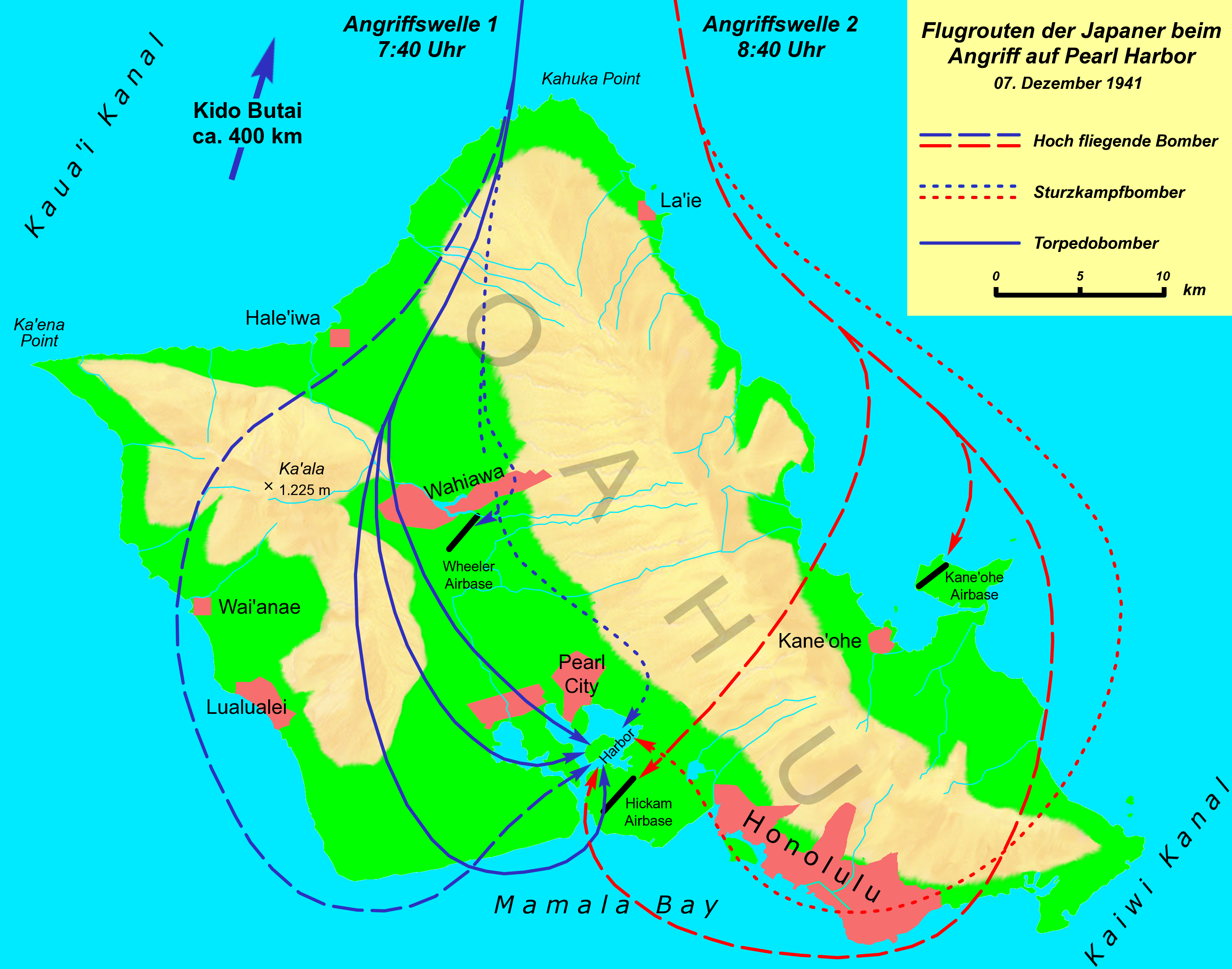 The attack on Pearl Harbour in December 7th, 1941.